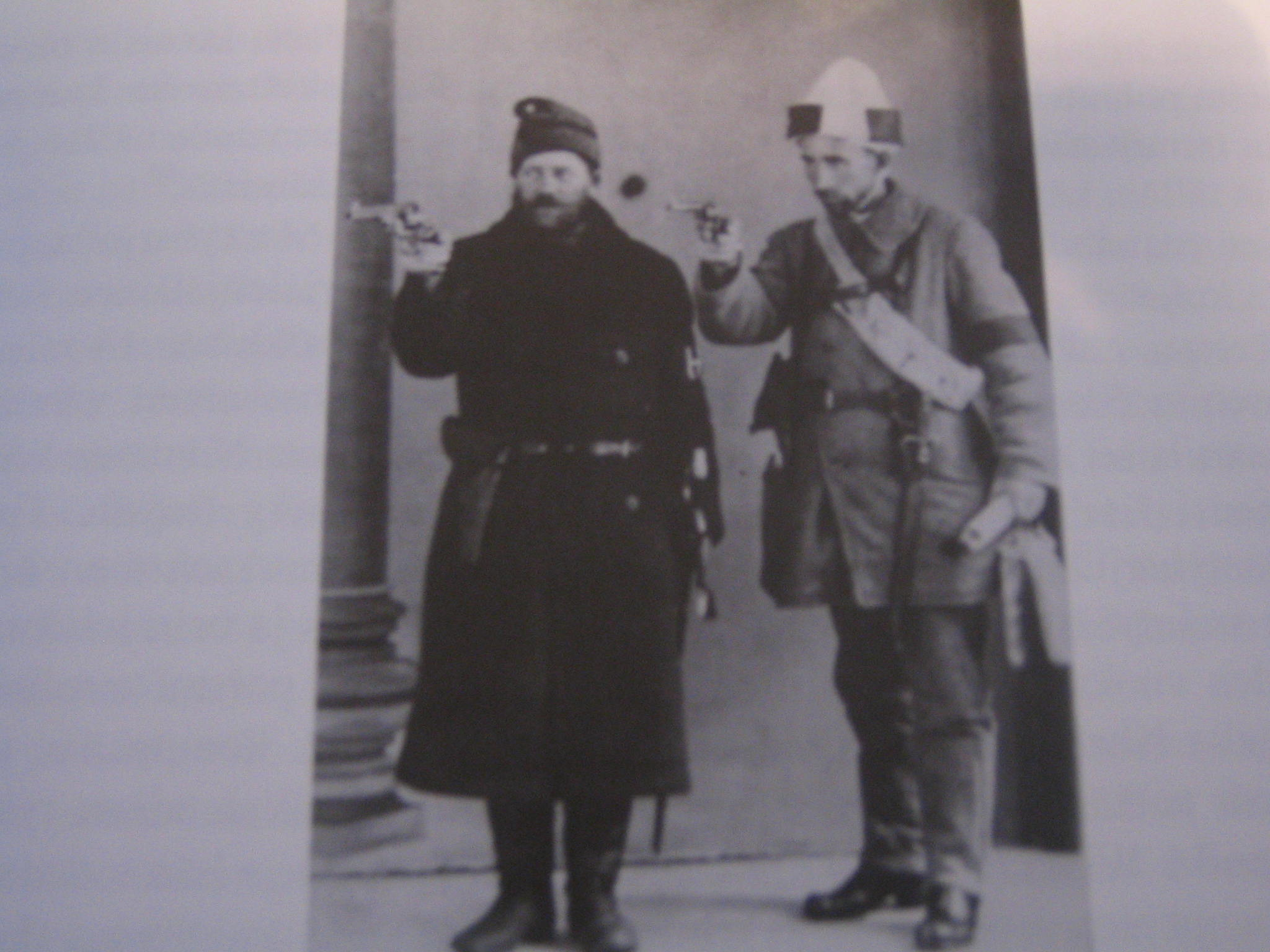 Finnish red guard leaders Juho Eslin and Oskari Koivula.